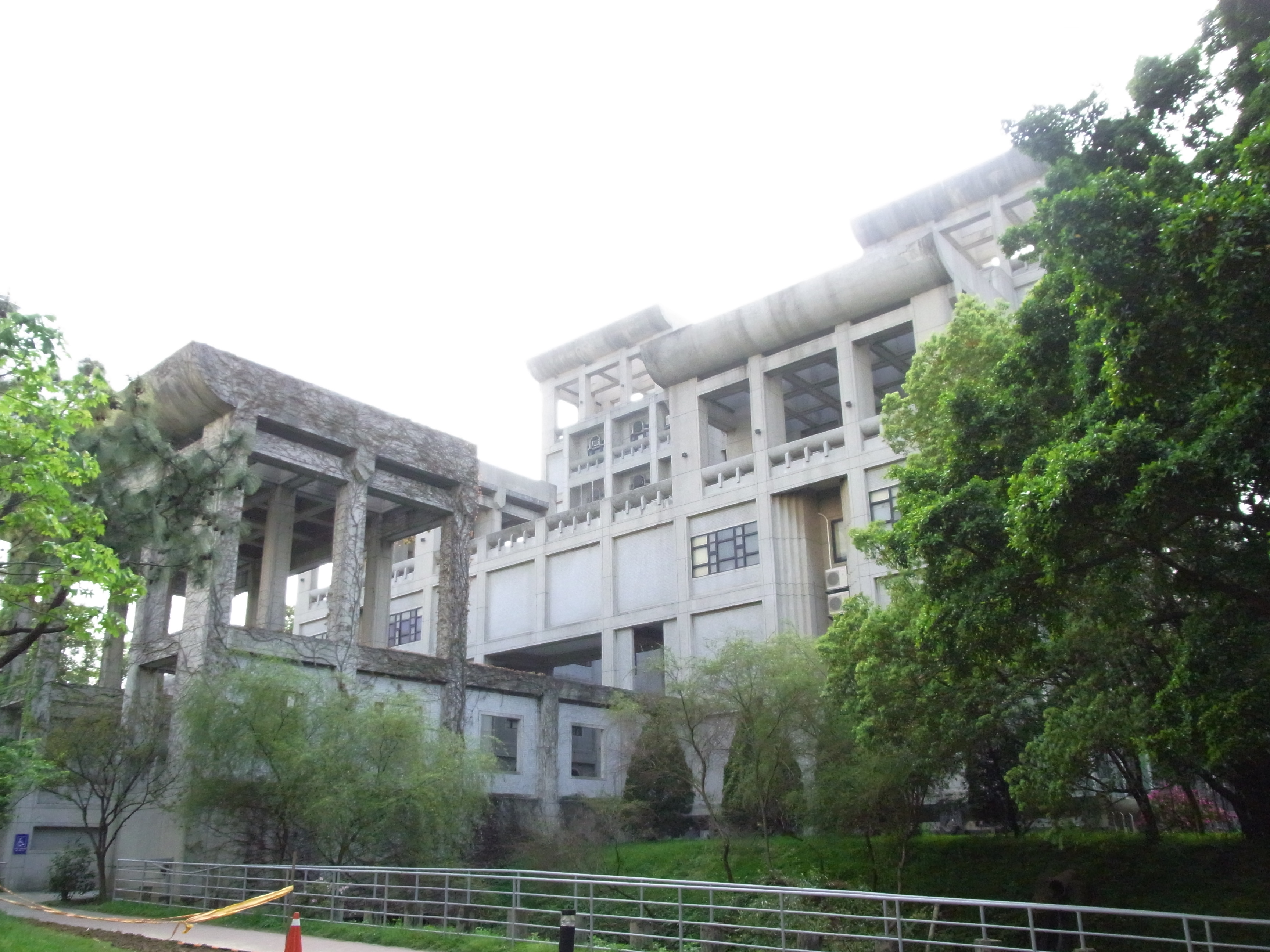 The physics building in National Tsing Hua University中文（台灣）: 國立清華大學物理館。